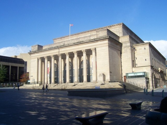 Sheffield City Hall The City Hall in Barker's Pool.